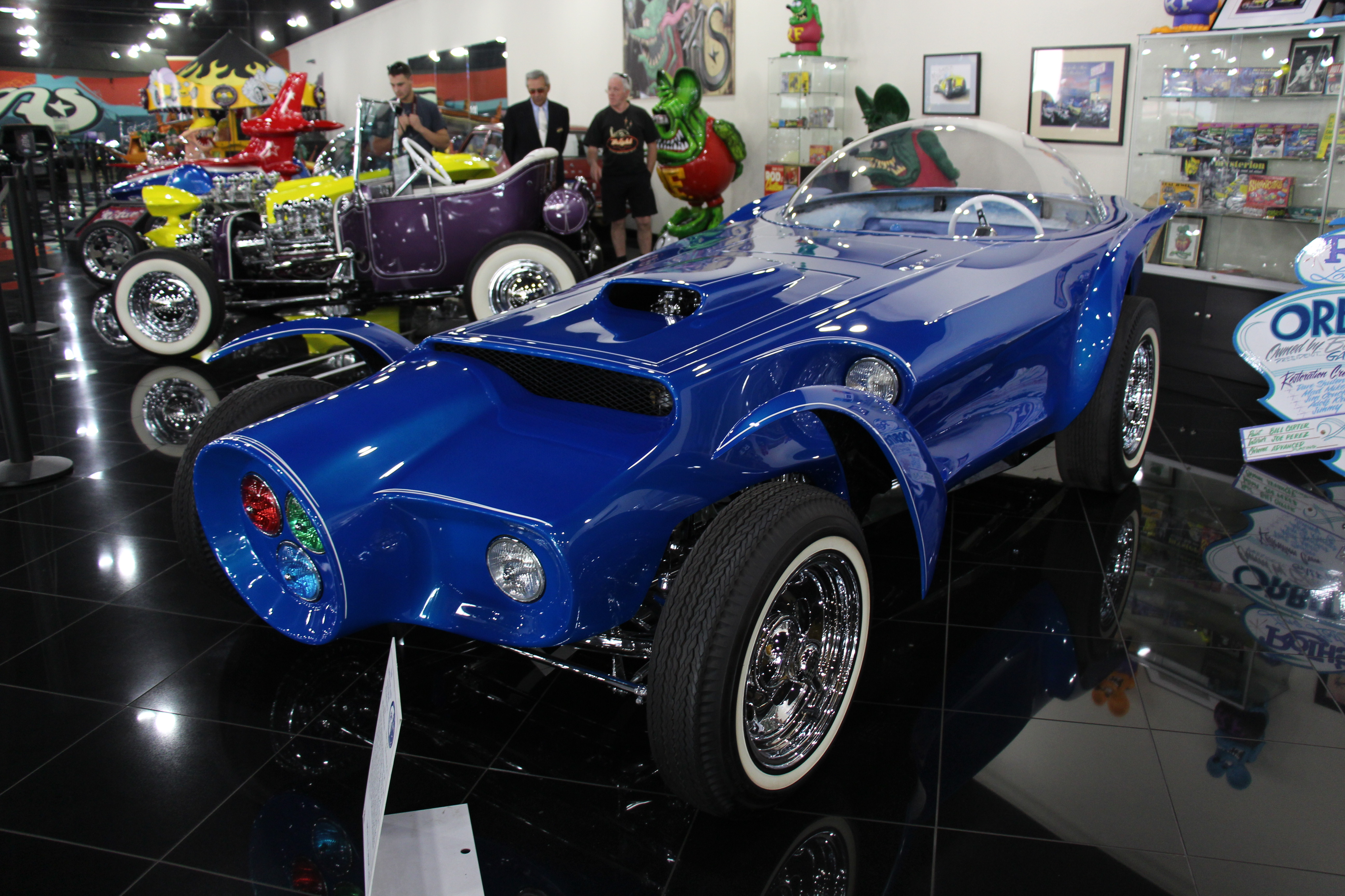 Ed 'Big Daddy' Roth was an artist, cartoonist, illustrator, pinstriper and custom car designer and builder who created the hot-rod icon Rat Fink and other characters. Roth was a key figure in Southern California's Kustom Kulture and hot-rod movement of the late 1950s and 1960s. Ed Roth built this car in 1964, he thought it was not as popular as others he had built, maybe because the Chevy engine was hidden from view. Ed got the idea to use the three primary coloured headlights, so when they turned on and focused in one spot they would create a white beam. The Orbitron went missing for many years, and only recently turned up in Mexico. The original fiberglass, chassis and engine were totally intact. It was totally restored at Galpin Auto Sports.